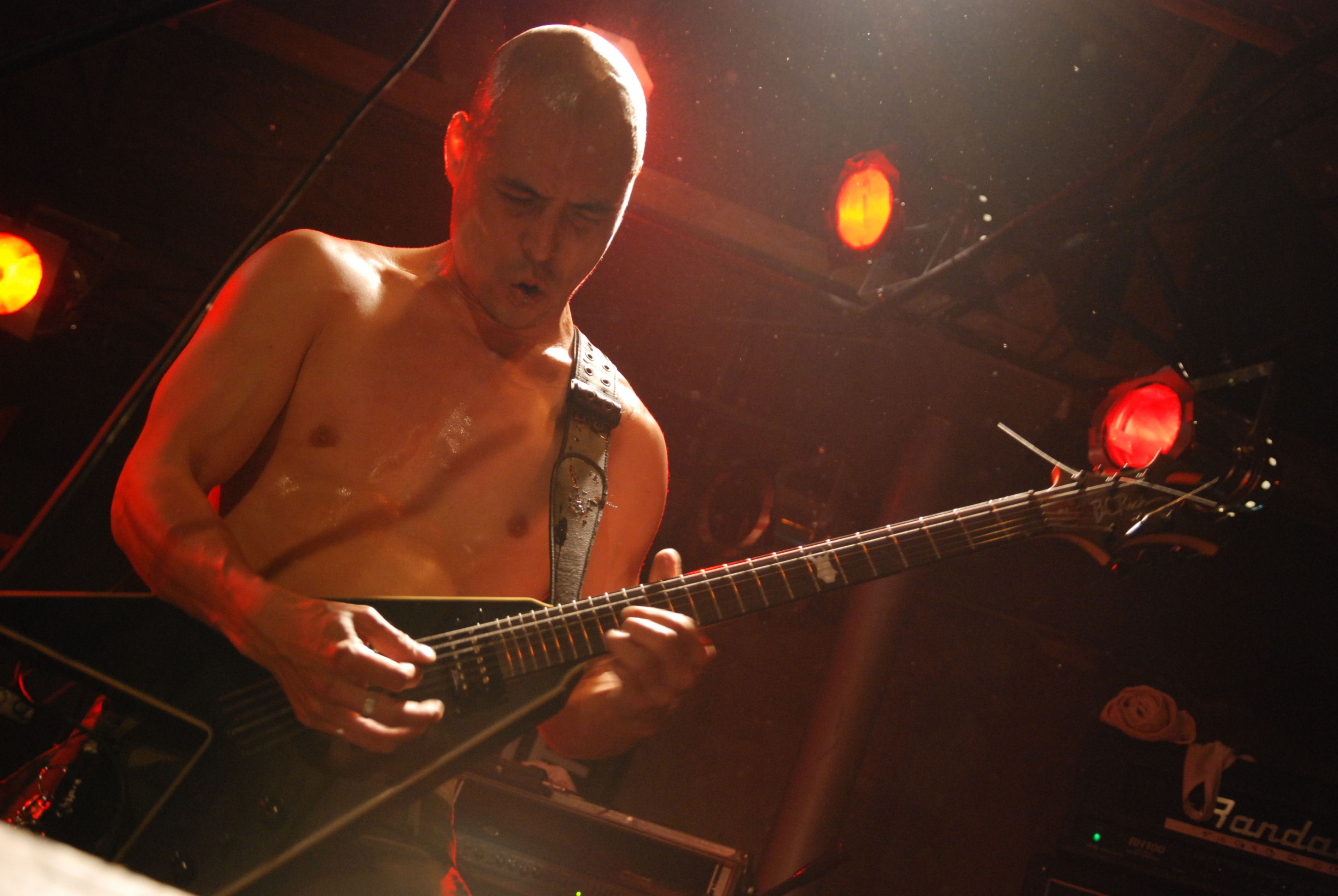 Dave Suzuki from Vital Remains during concert in Mega Club in Katowice